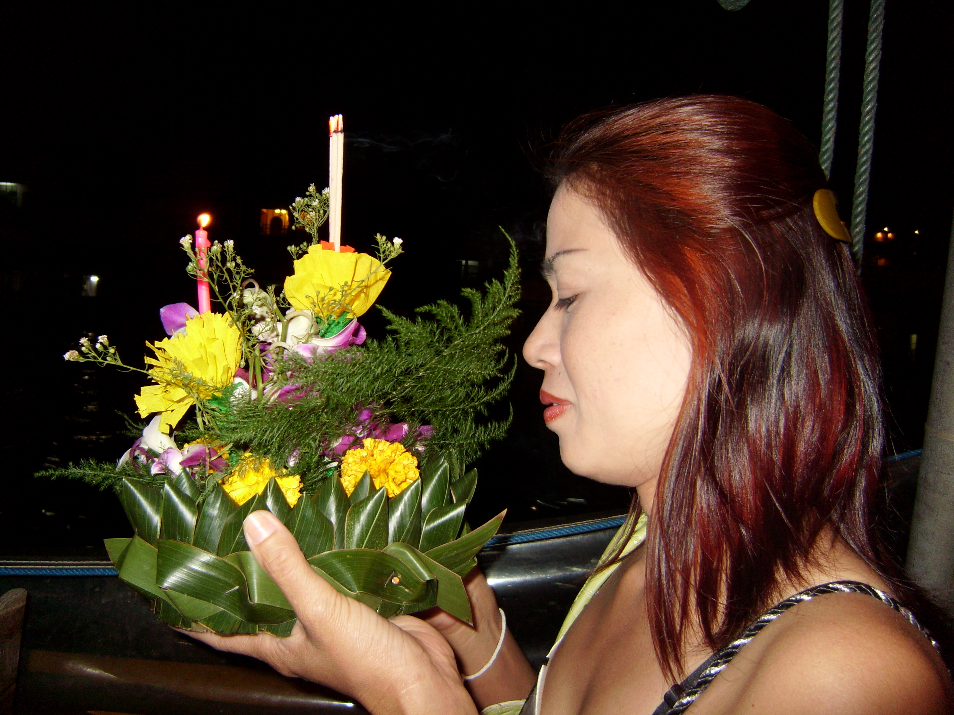 Loy Krathong celebrations 2008 Bangkok